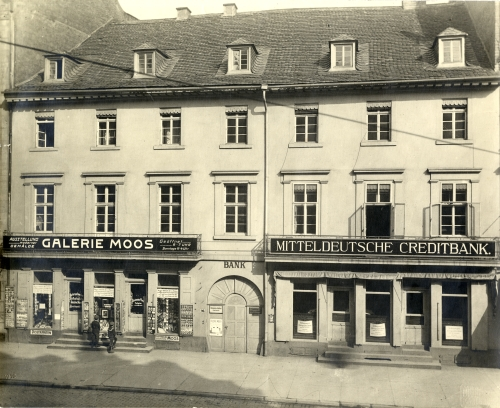 Alfred Seeligmann's bank in Karlsruhe, Kaiserstrasse 96, in 1916 when it was taken over by Mitteldeutsche Kreditbank. Posters in the shop windows say: "Draw War Bonds now". The lefthand side of the building had been let to the Moos family, renowned art dealers of Karlsruhe. Both Seeligmann and Moos were "aryanized" by the Nazis, i.e. robbed and driven out of the country. Some members of their families were murdered in the Shoah.